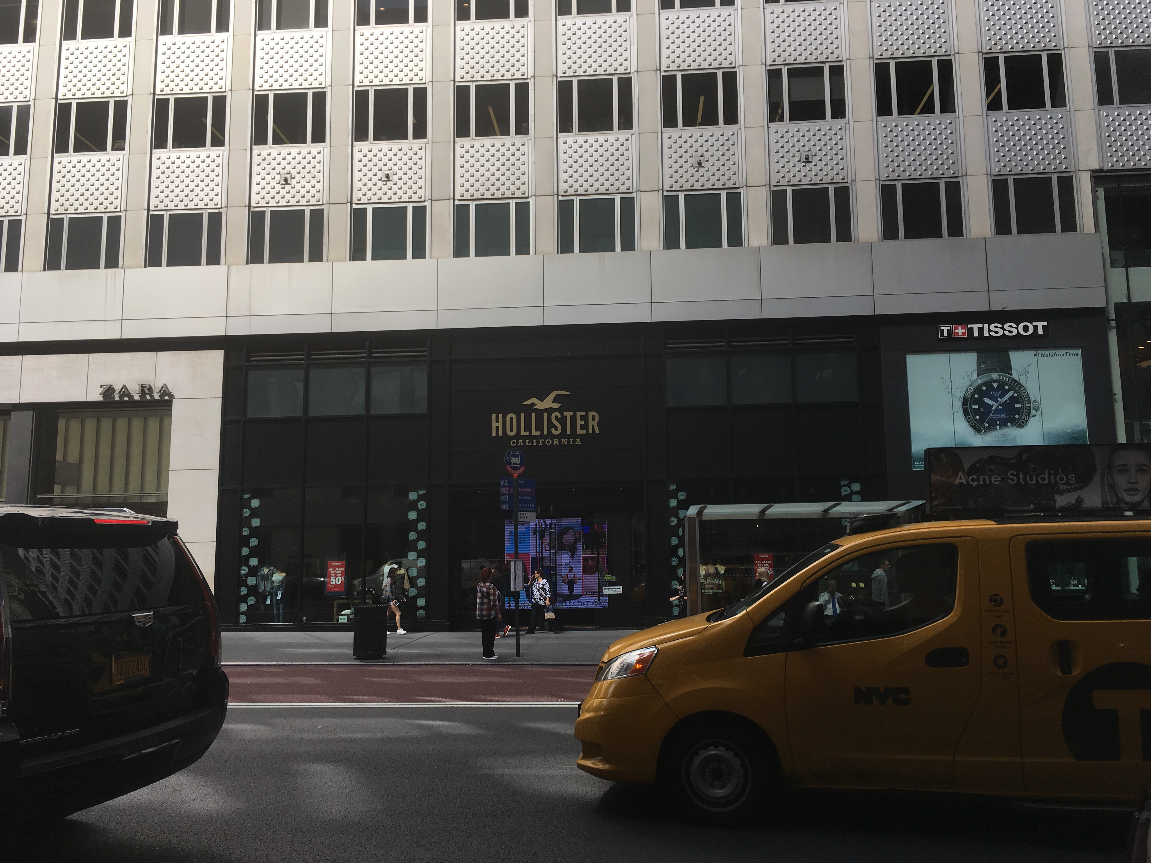 The Hollister Co. flagship store at the 666 Fifth Avenue office building along Fifth Avenue in Manhattan, New York City